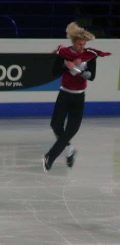 Karel Zelenka on the 2007 European Figure Skating Championships in Warsaw - free skate